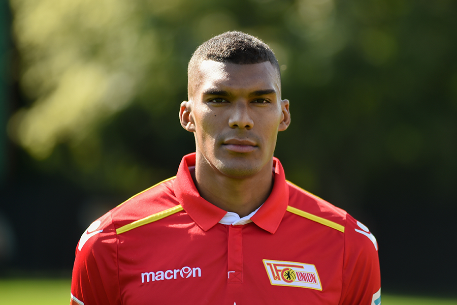 Teamfoto 2016/17